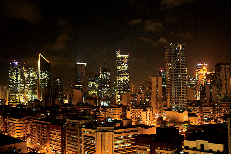 The skyscraper of Makati at night